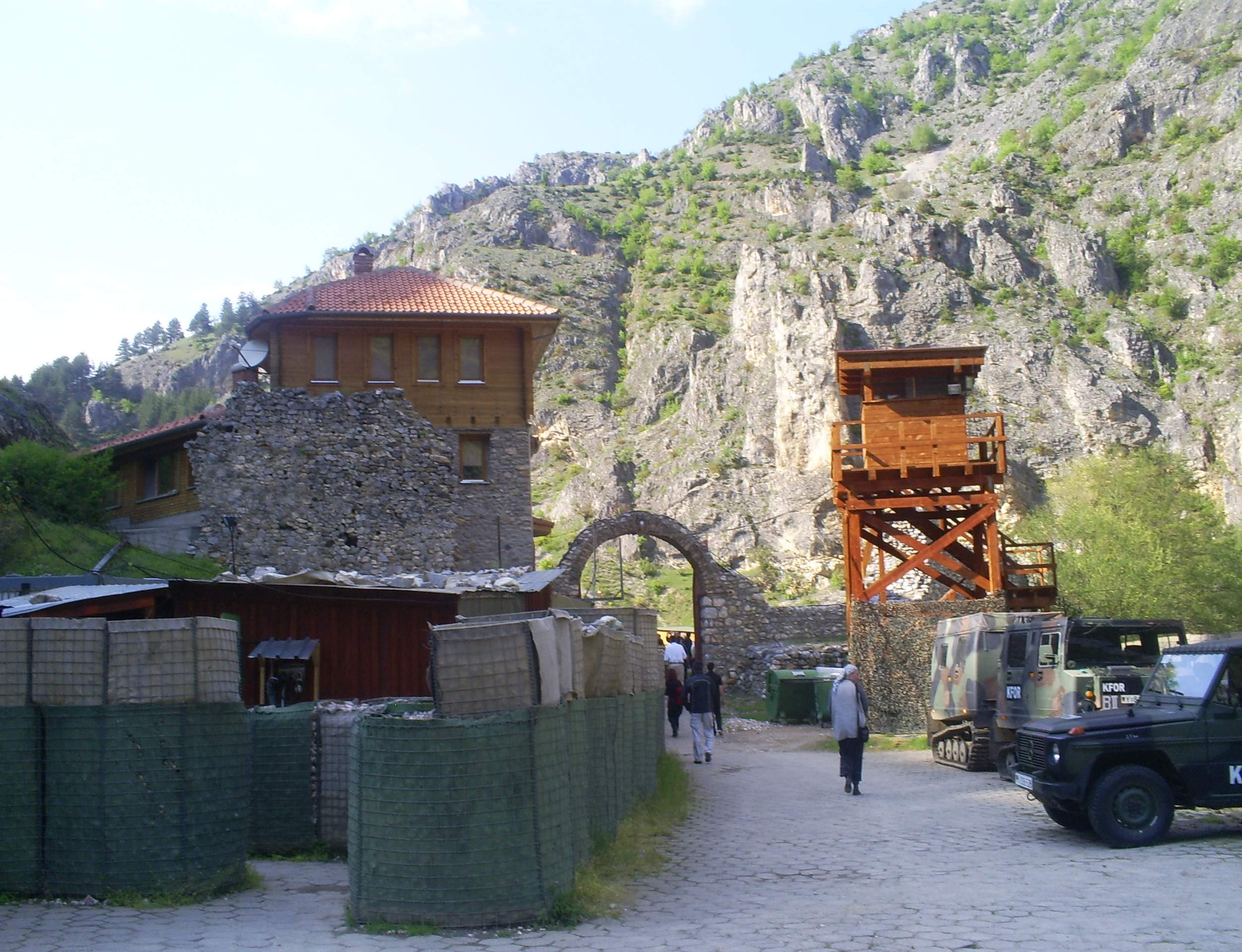 Konak and KFOR post in Sveti Arhangeli near Prizren, Serbia.